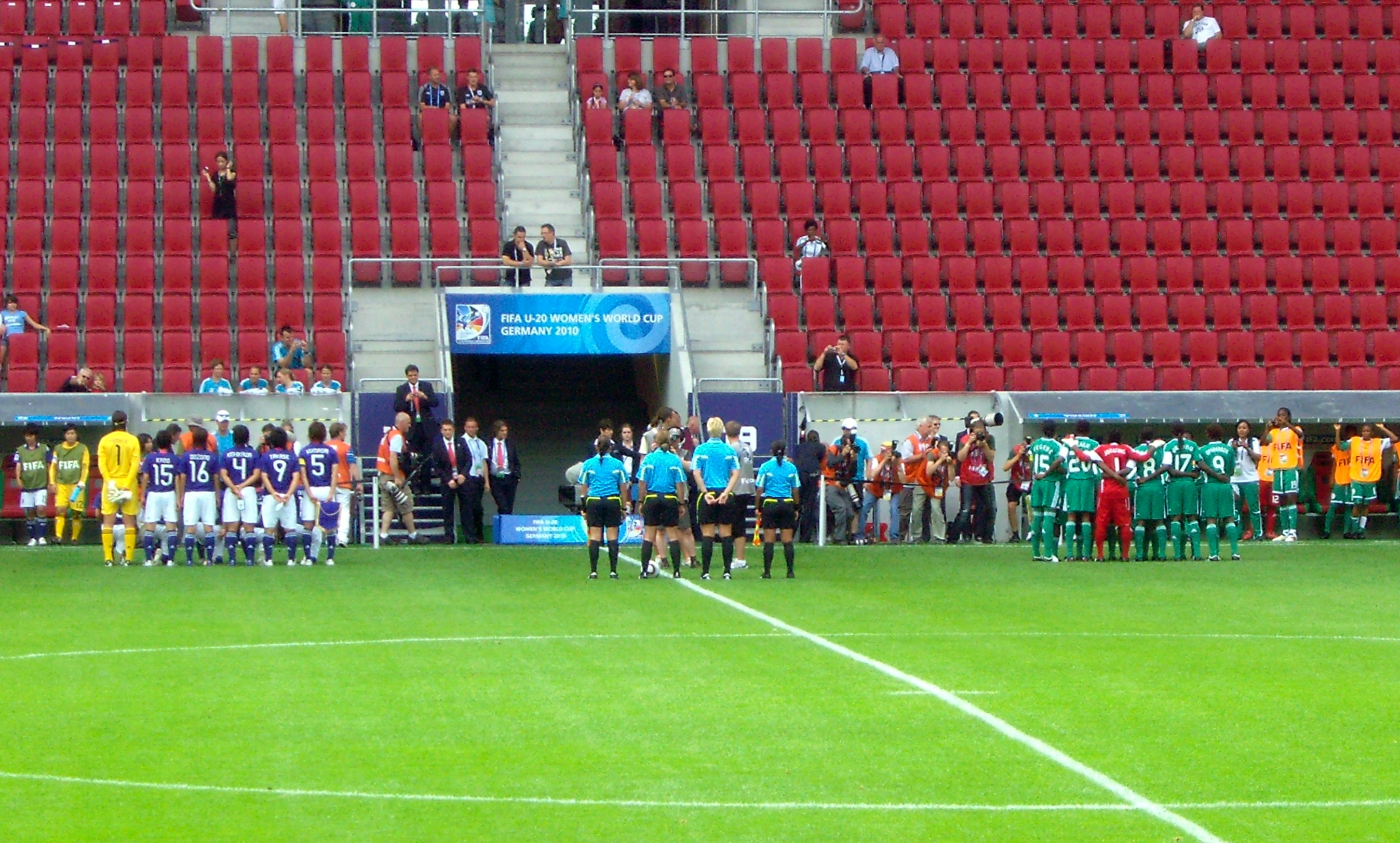 Nigeria–Japan at 2010 FIFA U-20 Women's World Cup in Impuls Arena as “FIFA Women's World Cup Stadium Augsburg”:Teams of Japan (left), referees (middle) and Nigeria (right) posing for photographs. Few spectators sit at the main stand. People looking towards the main stand, from left to right